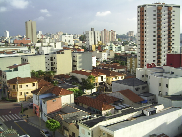 Buildings in São Caetano do Sul.